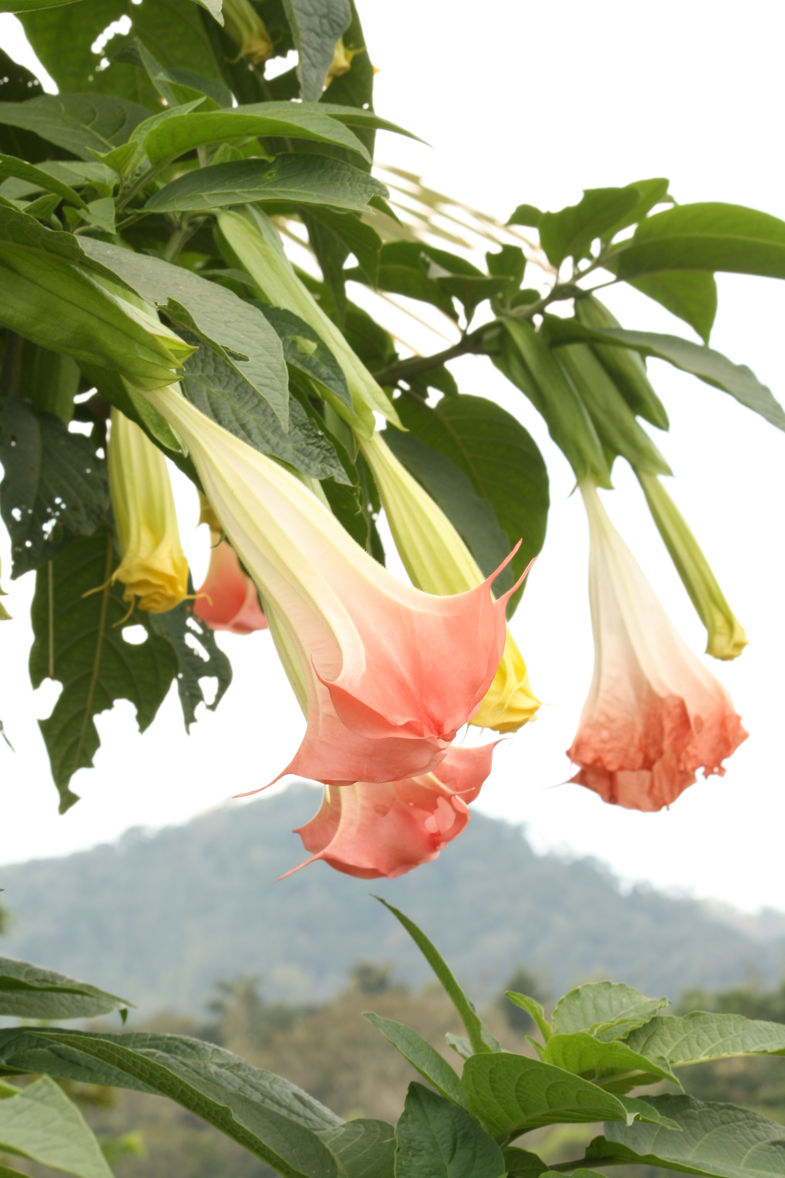 Angel's trumpet flowers